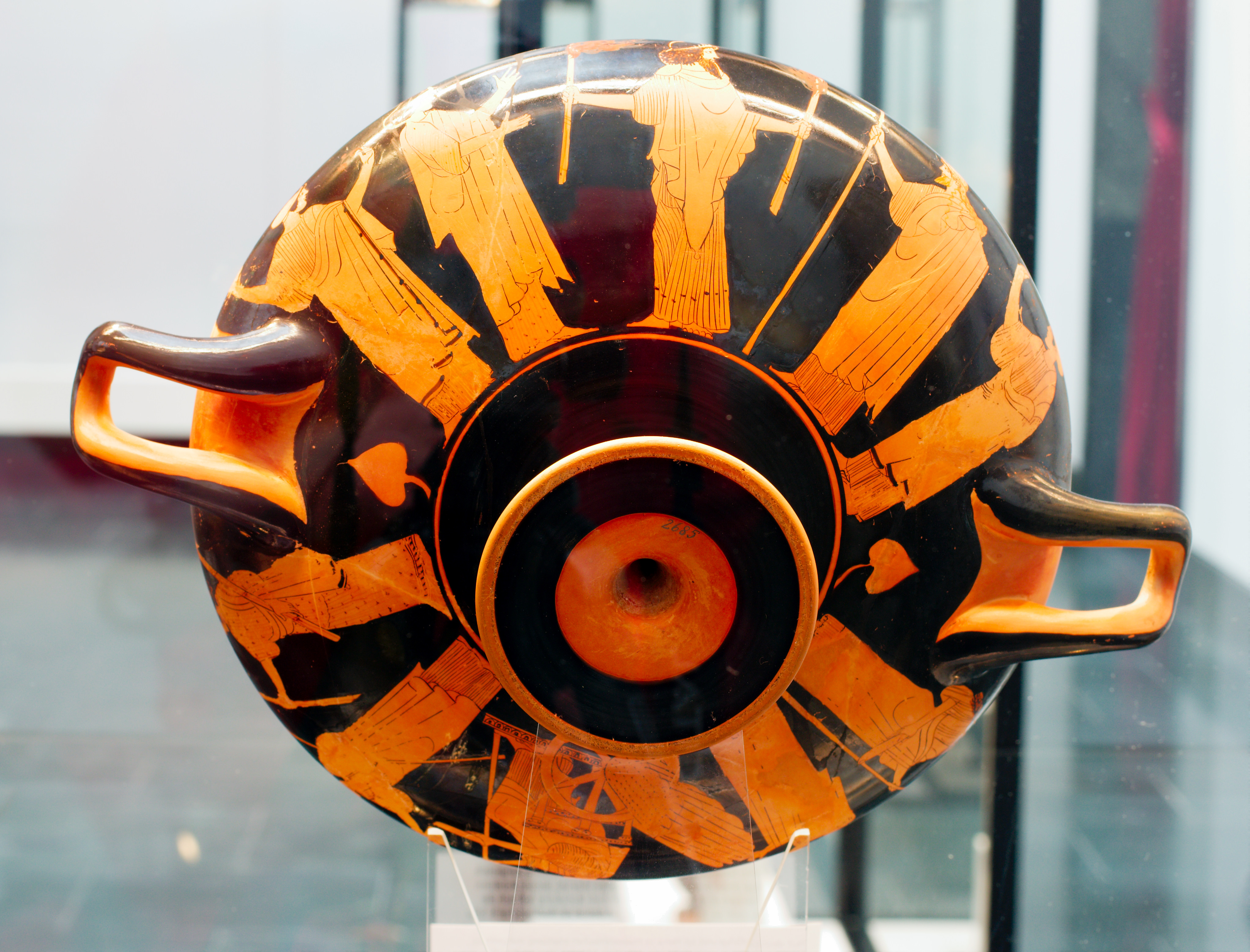 Hera (according to inscription). Tondo of an Attic white-ground kylix, ca. 470 BC. From Vulci.